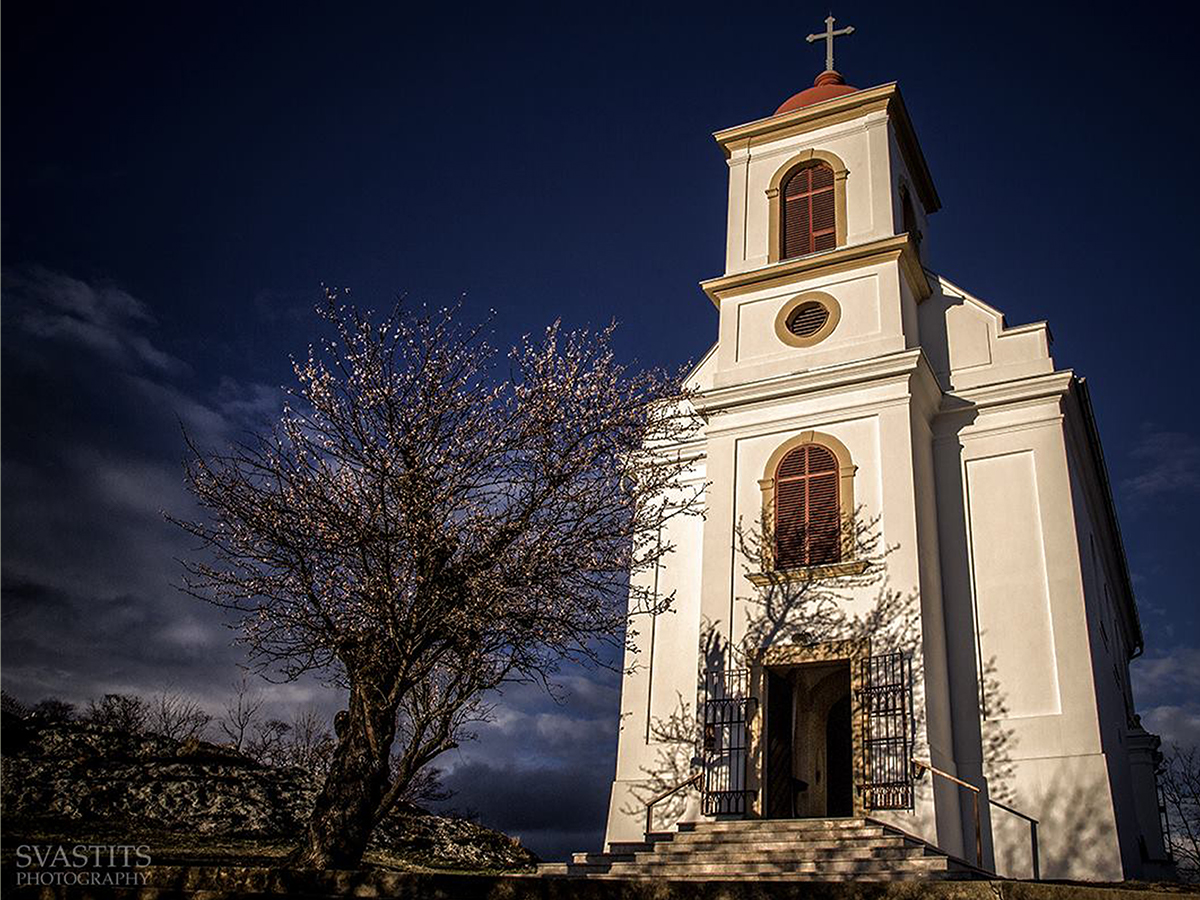 European tree of the year winner 2019 ¨The Almond Tree of the Snowy Hill in Pecs¨, Hungary